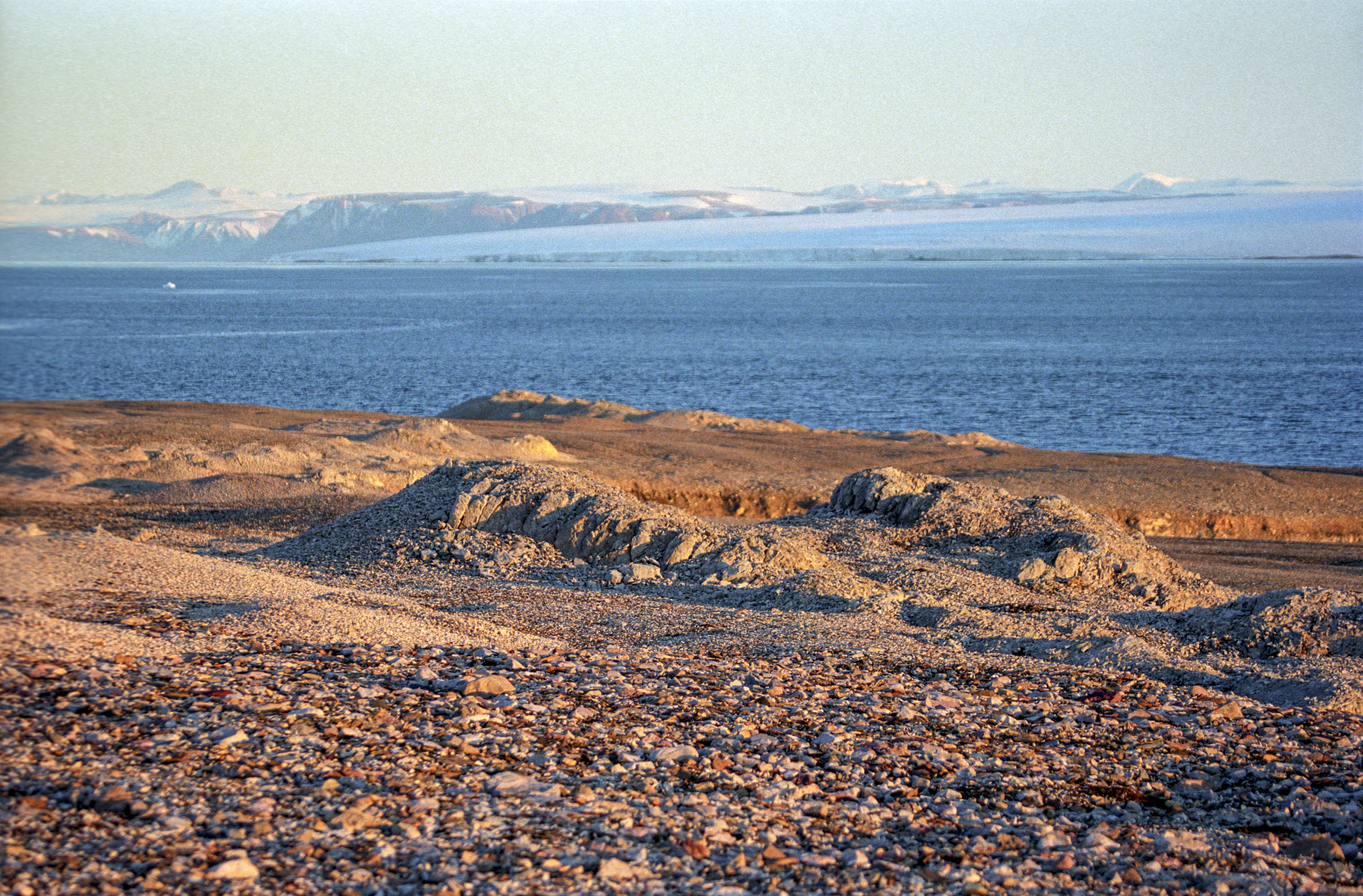 Svalbard, Nordaustlandet, Hinlopenstretet. Photo most probably taken from Gotiahalvøya over the Hinlopen strait towards Ny-Friesland (Lonfjorden), with Valhallfonna glacier to the right, Faksefjellet mountain in the center, and behind it to the left Myteberget and Sagnberget mountains.